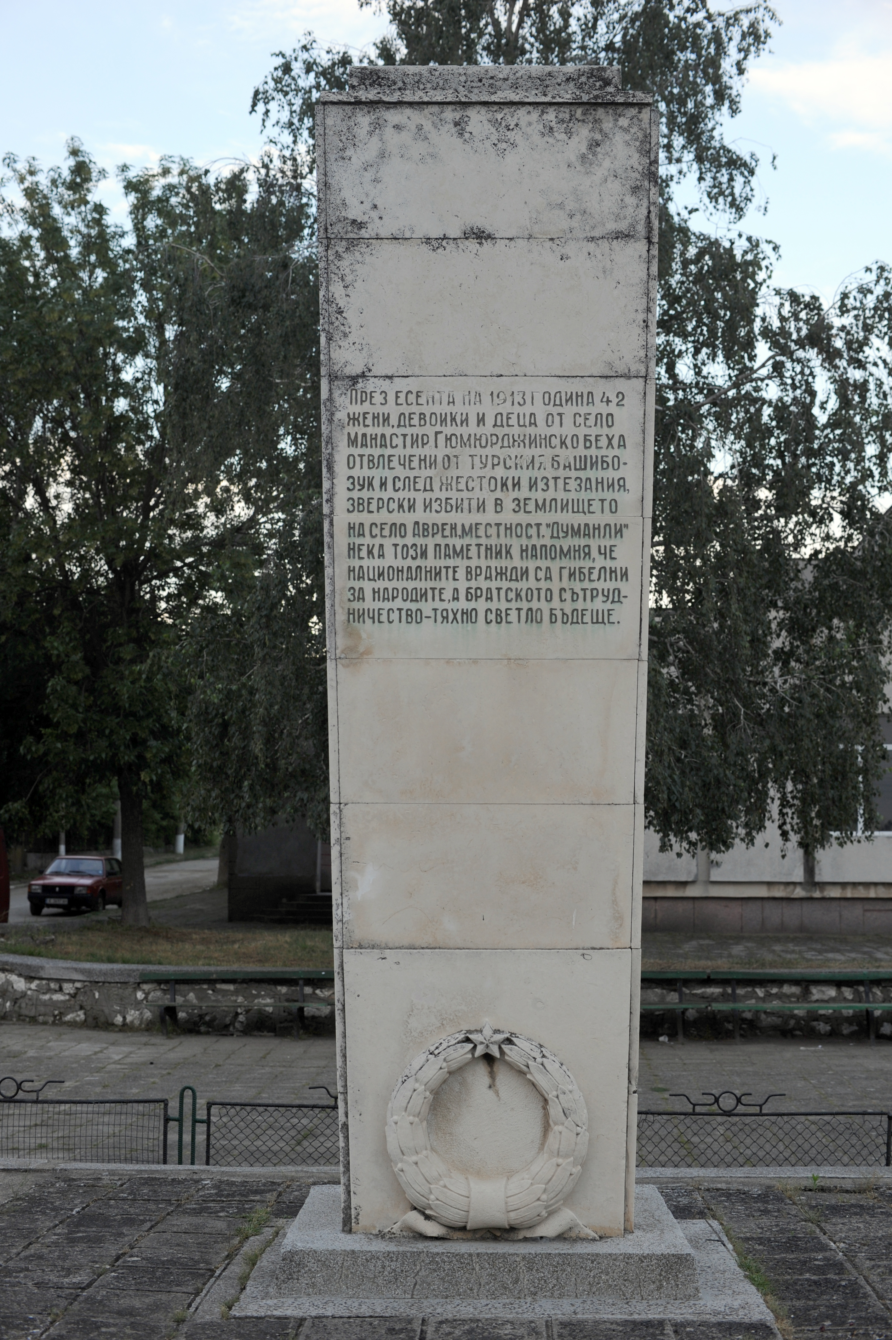 Momument for 1913 and Bashi-bazouks, center of Avren (Kardzhali province), Bulgaria. The text says: "In the fall of 1913 42 women, maids and children from the village of Manastir, Gümülcine, were abducted by the Turkish bashi-bazouk and after cruel torturing were killed in the land of the village of Avren at the “Dumanli” site. Let this monument remind that the national enmity is fatal for the nations but the fraternal cooperation – their bright future."